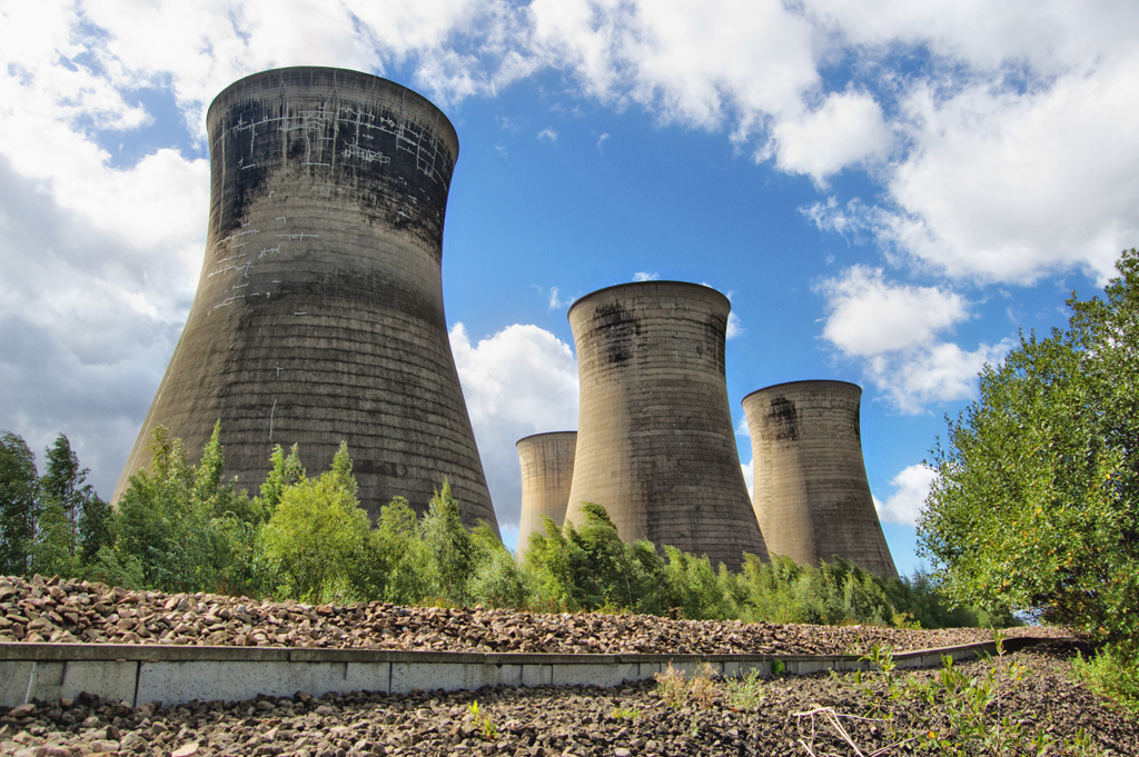 The crumbling skeleton of this coal-fired giant sits broodingly in low lying fields to the north of Doncaster. The story of Thorpe Marsh Power Station began with its construction in 1959, amid much fanfare heralding its advanced generators and state-of-the-art component technologies. After decades of faithful service to the National Grid, the station was finally terminated in 1994 and is rapidly succumbing to the ravages of foliage and the British weather. The original photograph is available online in full resolution at this address.